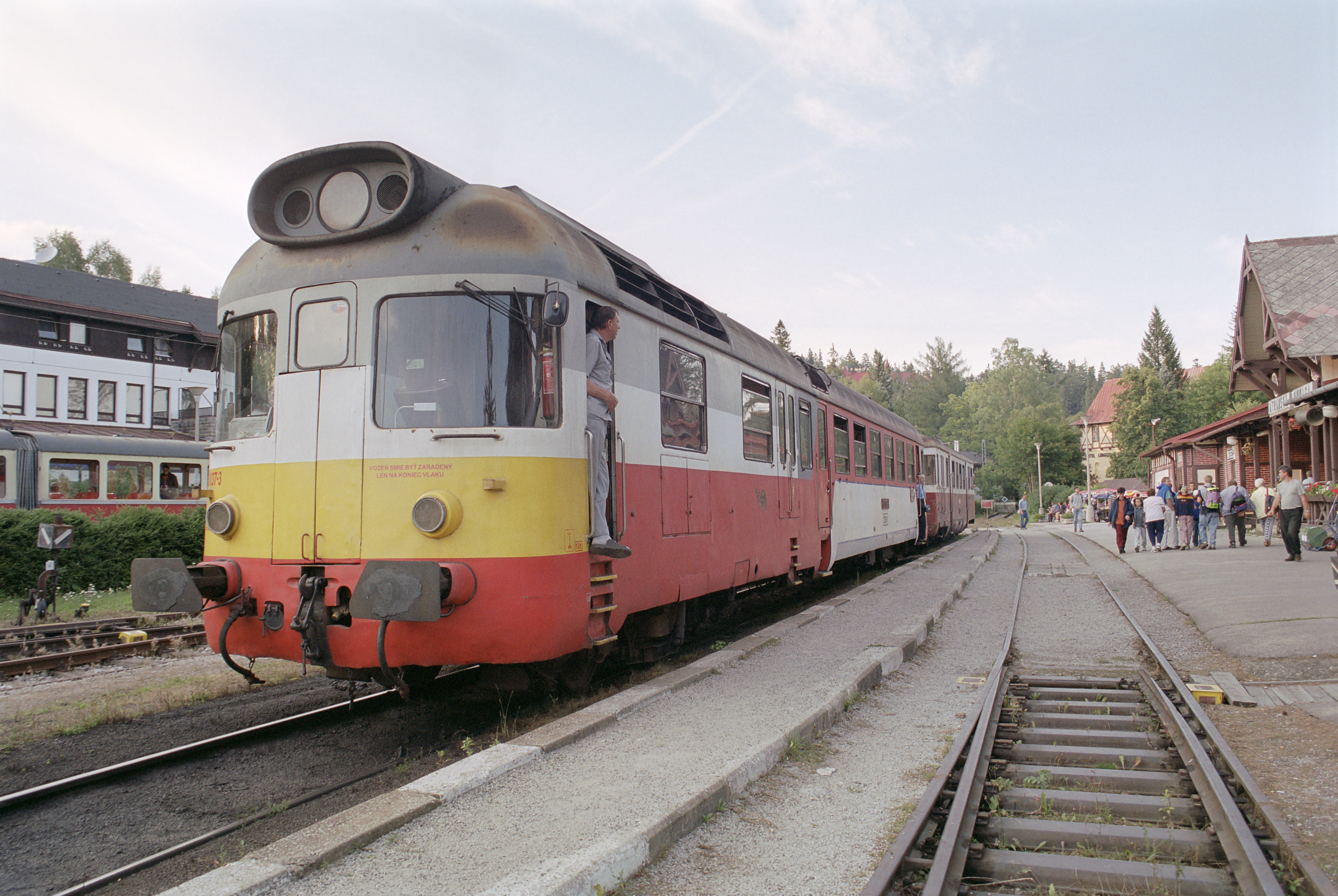 multiple unit type 850, behind that an 820. Tatranská Lomnica, Slovakia